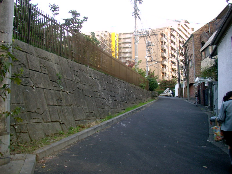 Bottom of the Slope.